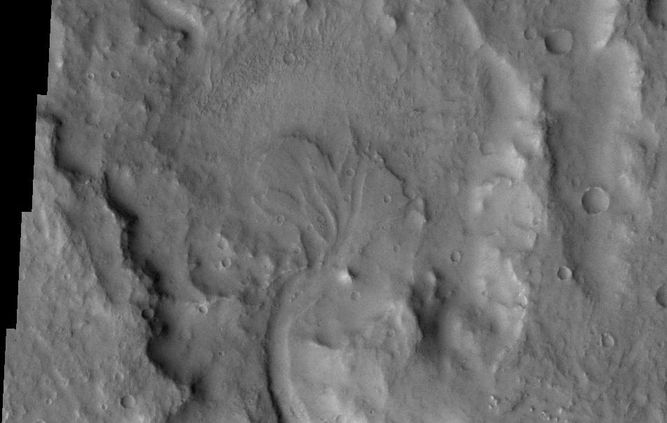 Delta in Margaritifer Sinus, as seen by themis. Location is 19.1 S and 6.35 W.